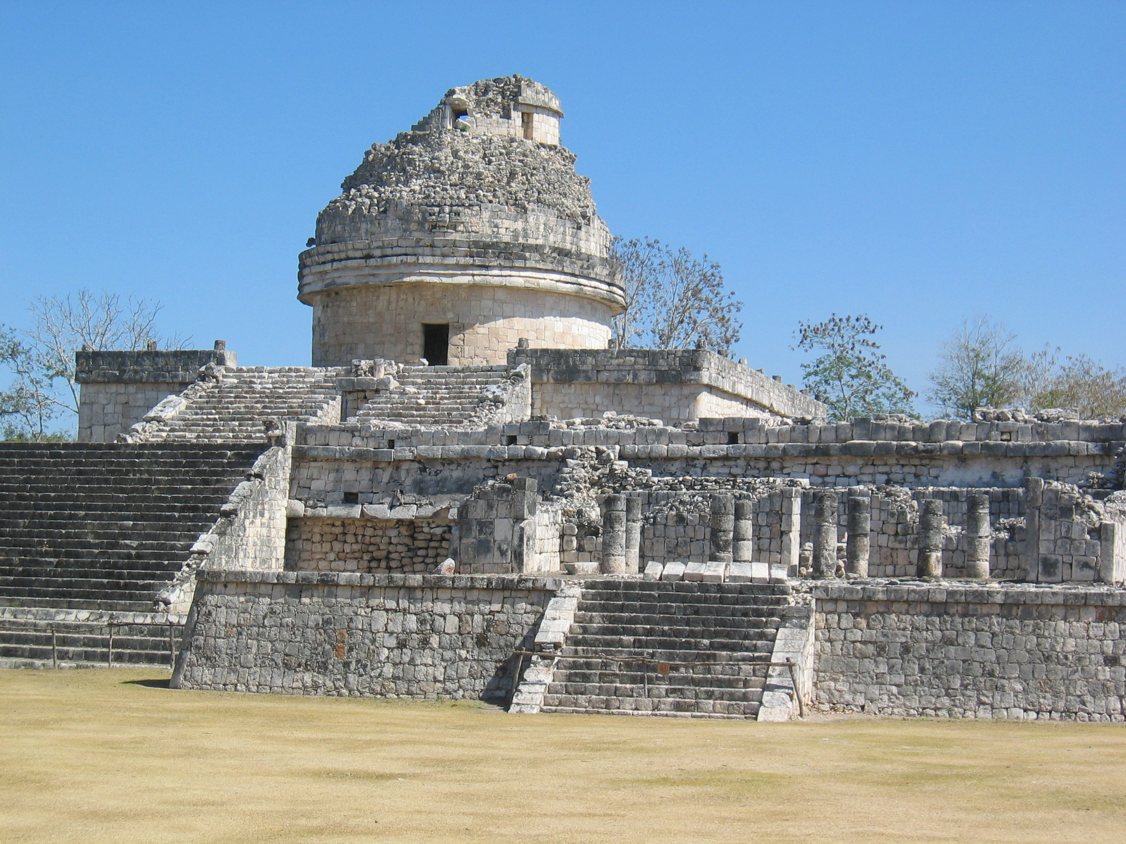 This is the structure called "The Observatory" in the Chichen Itza ruins in Mexico.Chichen Itza ruins in Mexico